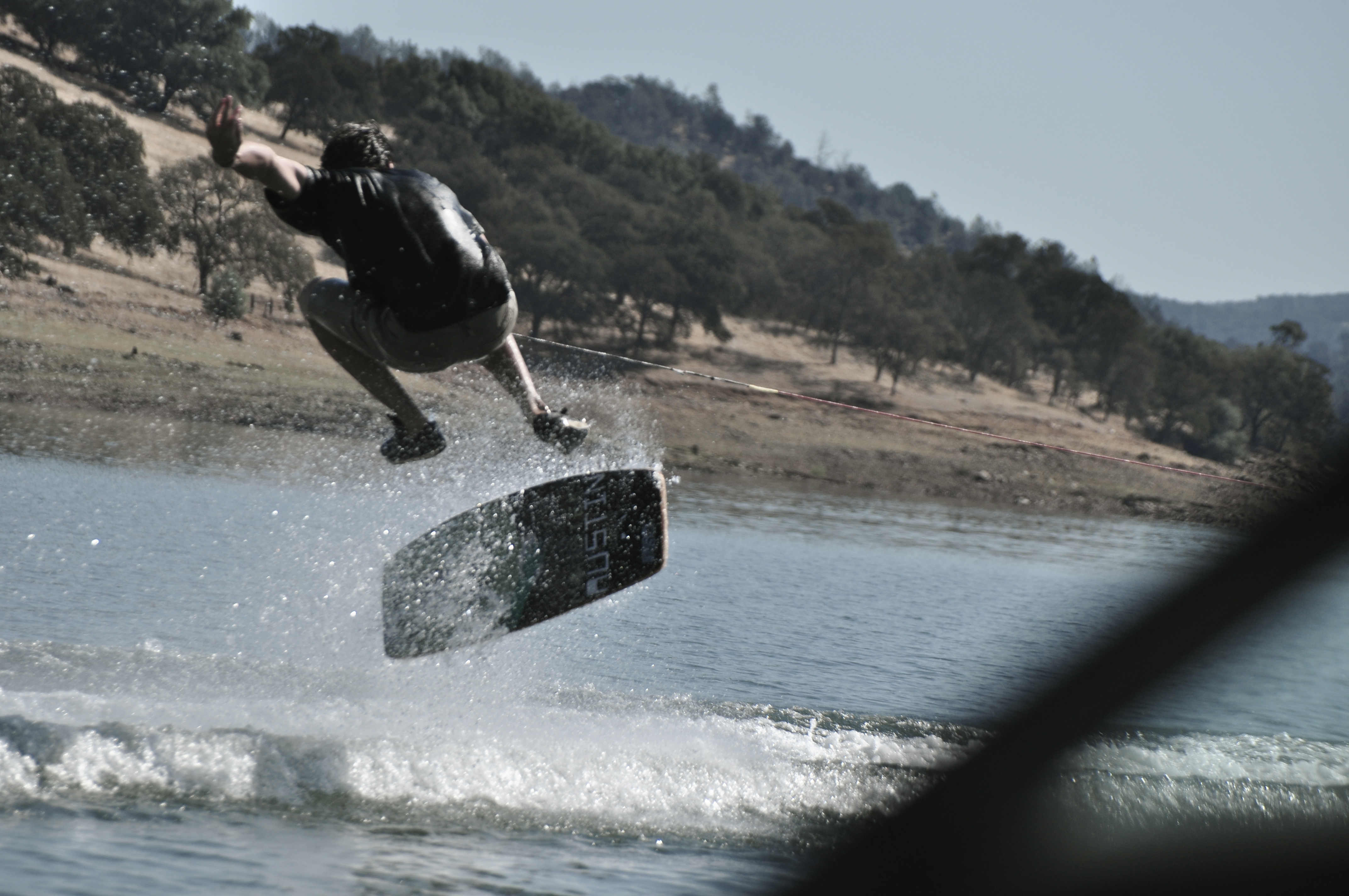 Keaton Bowlby Varial Flip during Nor-Cal Convergence